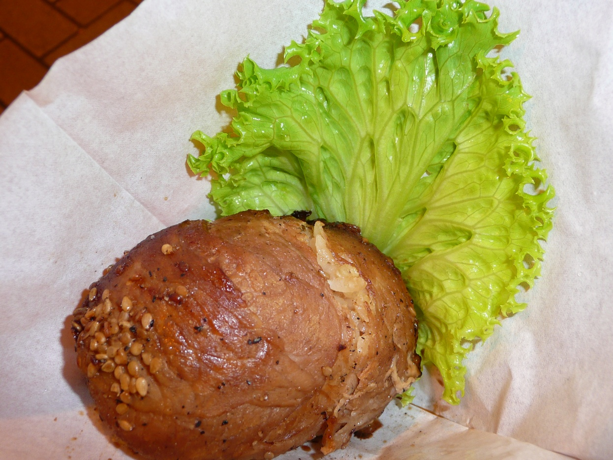 Nikumaki Onigiri (Miyazaki Prefecture, Japan)